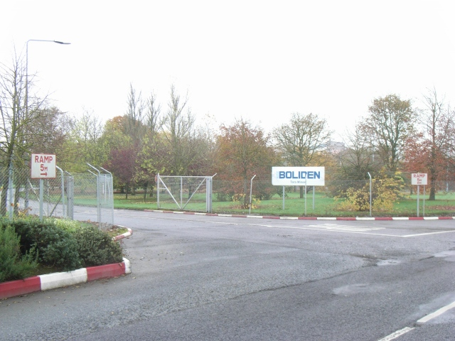 Tara Mines Entrance, Navan, Co. Meath. The main entrance to the mine. Unfortunately the tree screening around the site is far too effective and it's next to impossible to get a decent view of the mine proper.